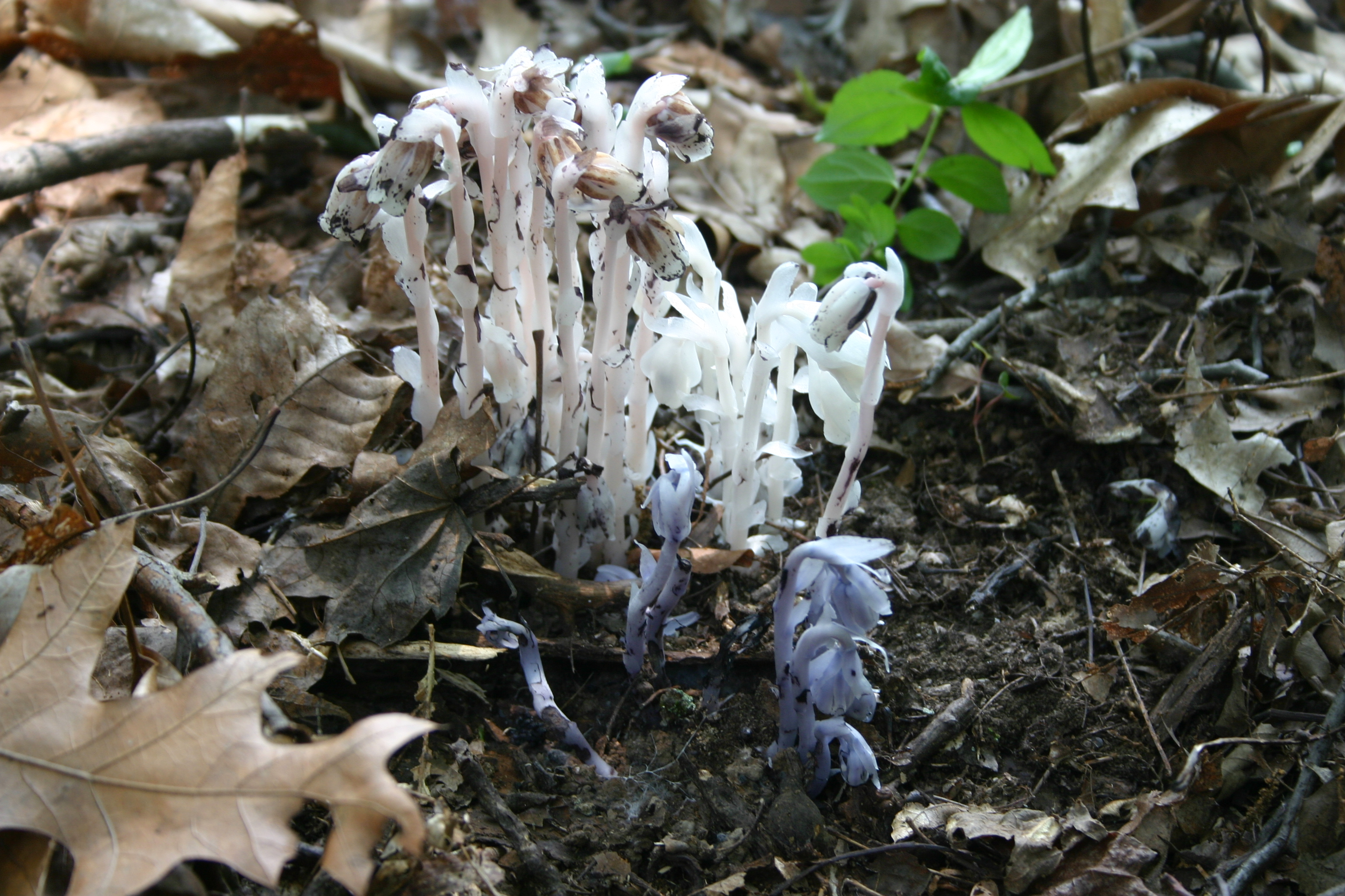 Indian Pipes in white, pink, and blue-purple at Glenmere Lake in Orange County, New York.